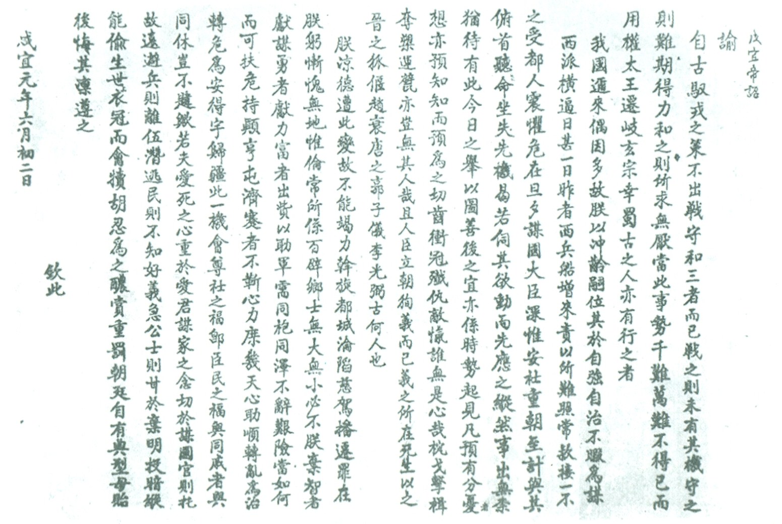 Text of Can Vuong